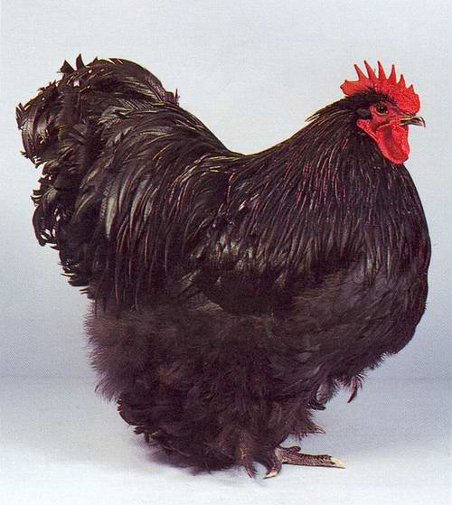 chern